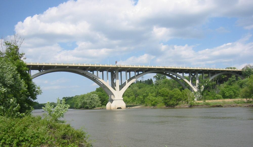 The Mendota Bridge viewed from the west, in Fort Snelling State Park.